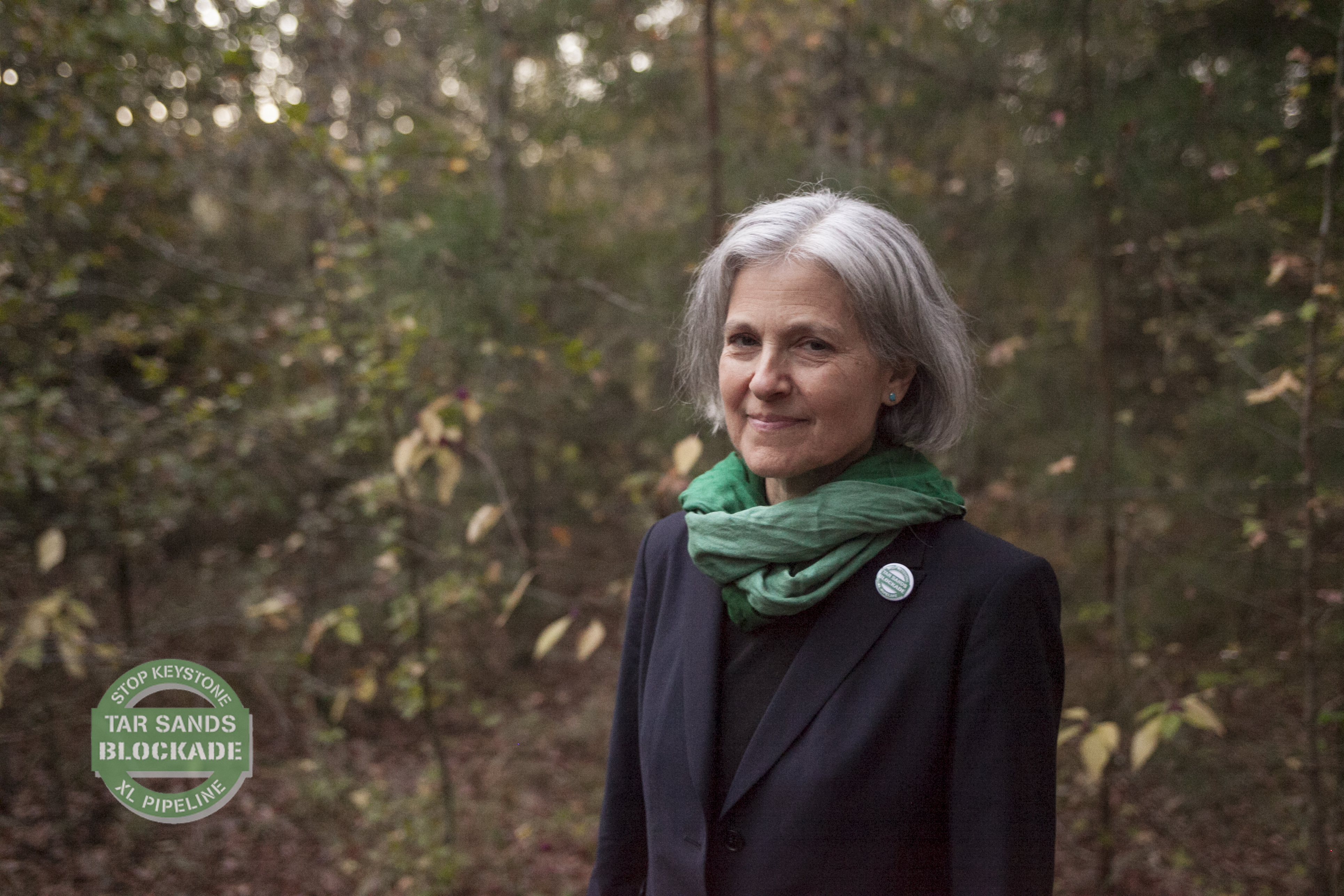 On Oct. 31, 2012, Dr. Jill Stein was arrested while resupplying the Winnsboro Tree Blockade in Texas, one of many actions opposing the Keystone XL Pipeline.